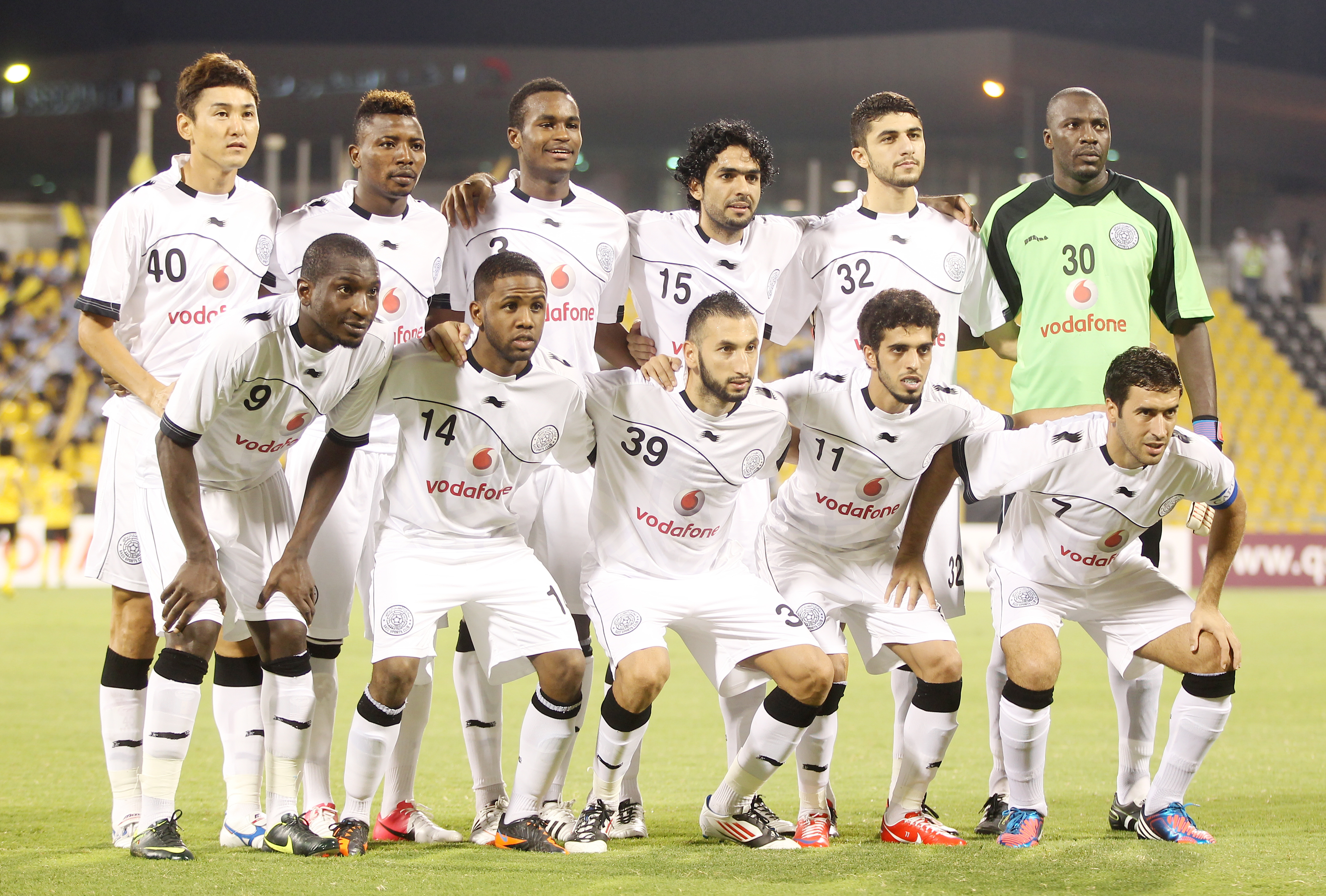 Members of the Al Sadd football team form a huddle prior to the start of their Qatar Stars League match. Picture by Mohan